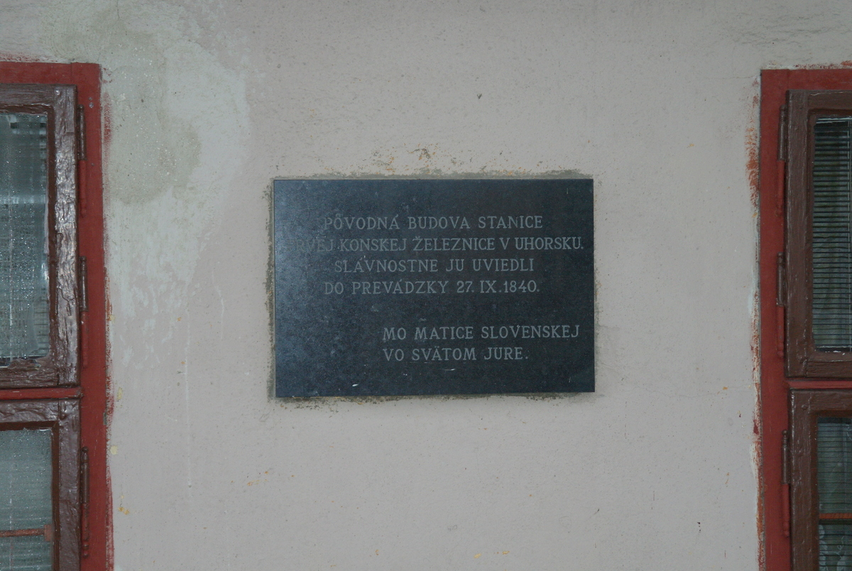 Original station building of the first horse railway in Old Hungary (1840), Nádražná 2, Svätý Jur. Memorial plaque.